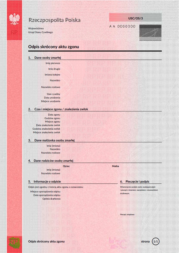 Polish abbreviated death certificate, new version since 2015